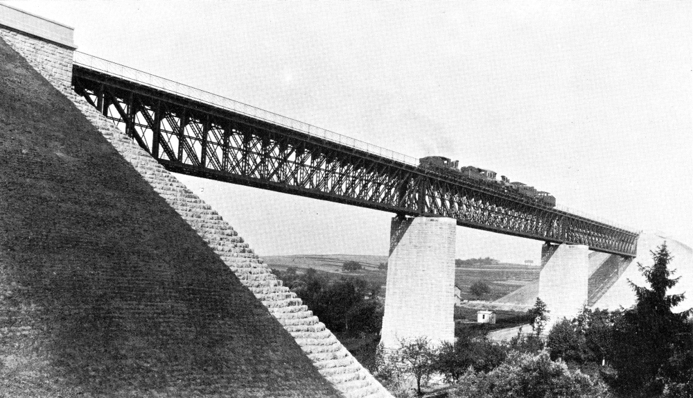 Württembergische Lok der Klasse AD mit Crailsheimer Eisenbahnpersonal